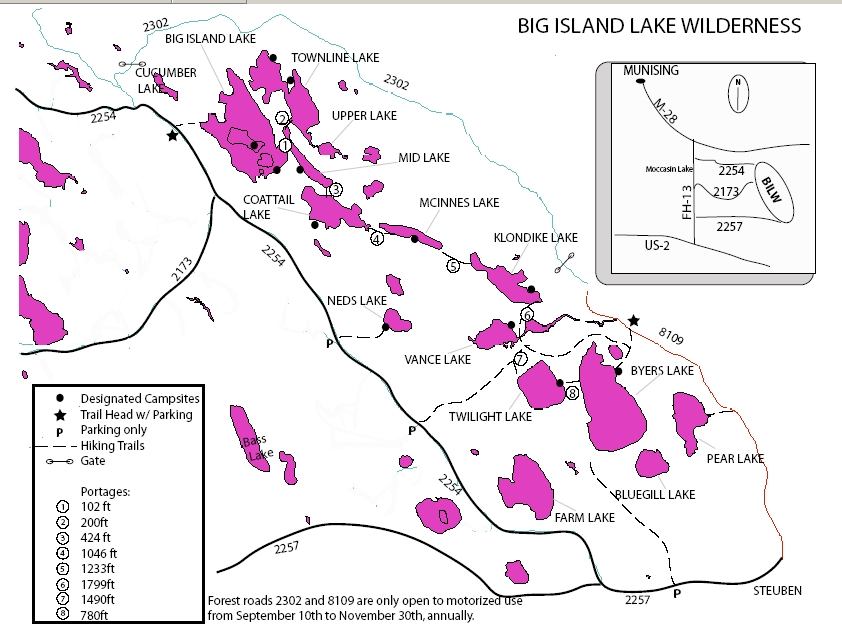 jpeg copy of the USDA USFS map of the Big Island Lake Wilderness map